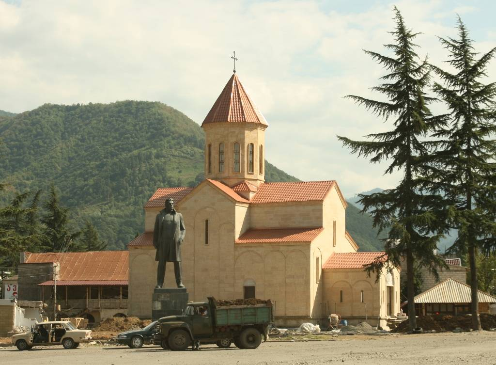 Baghdati.